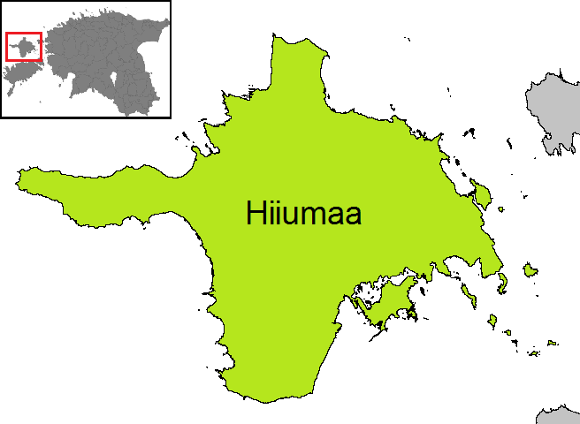 Map of the municipalities of Hiiu County after the Administrative Reform of Estonia in 2017.